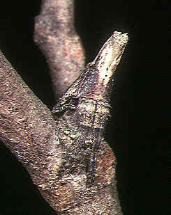 female Poltys columnaris from Okinawa.